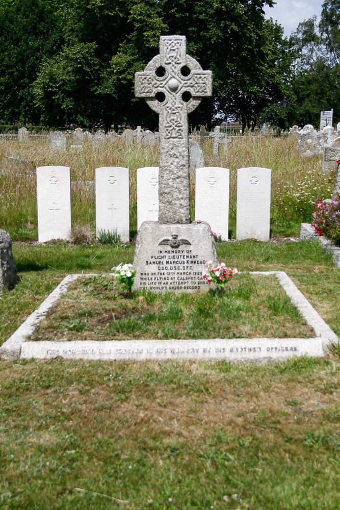 Samuel Kinead's gravestone after restoration in 2018 when it was straightened.